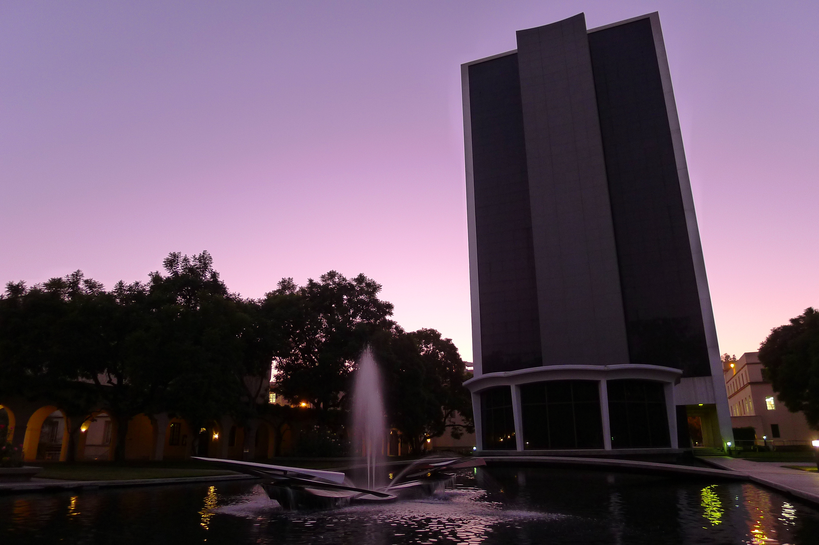 The Robert Andrews Millikan Memorial Library at Caltech